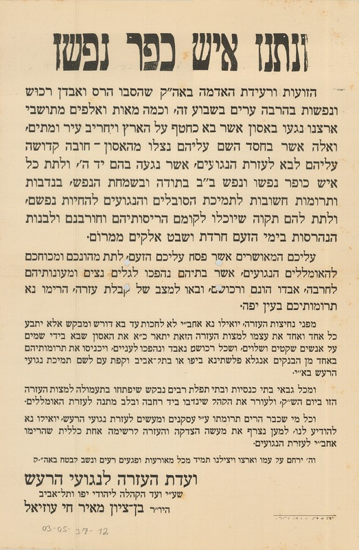 Earthquake israel poster